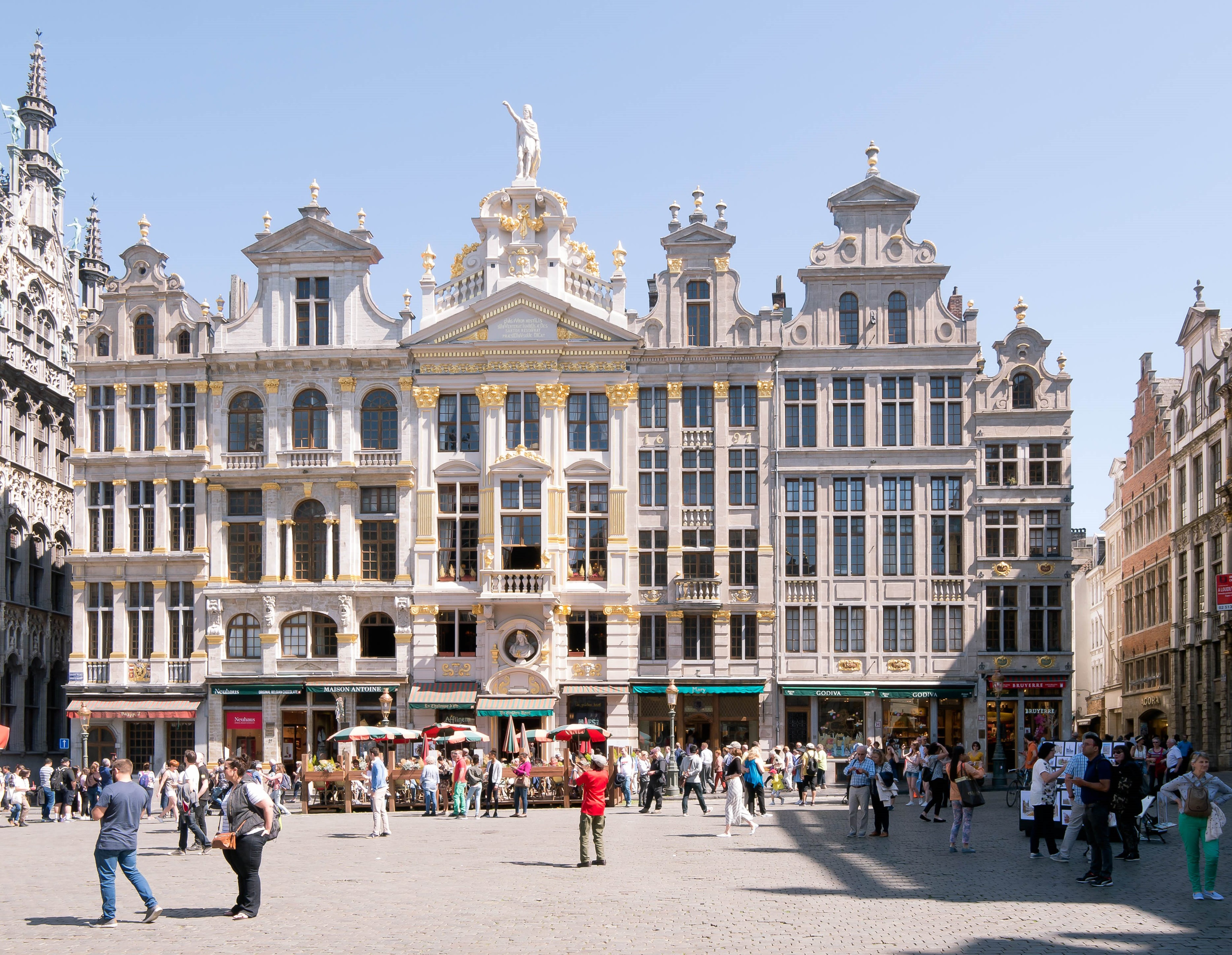 The Grand Place in Bruxelles with a few guildhalls on the north-eastern side (house number 20-28)